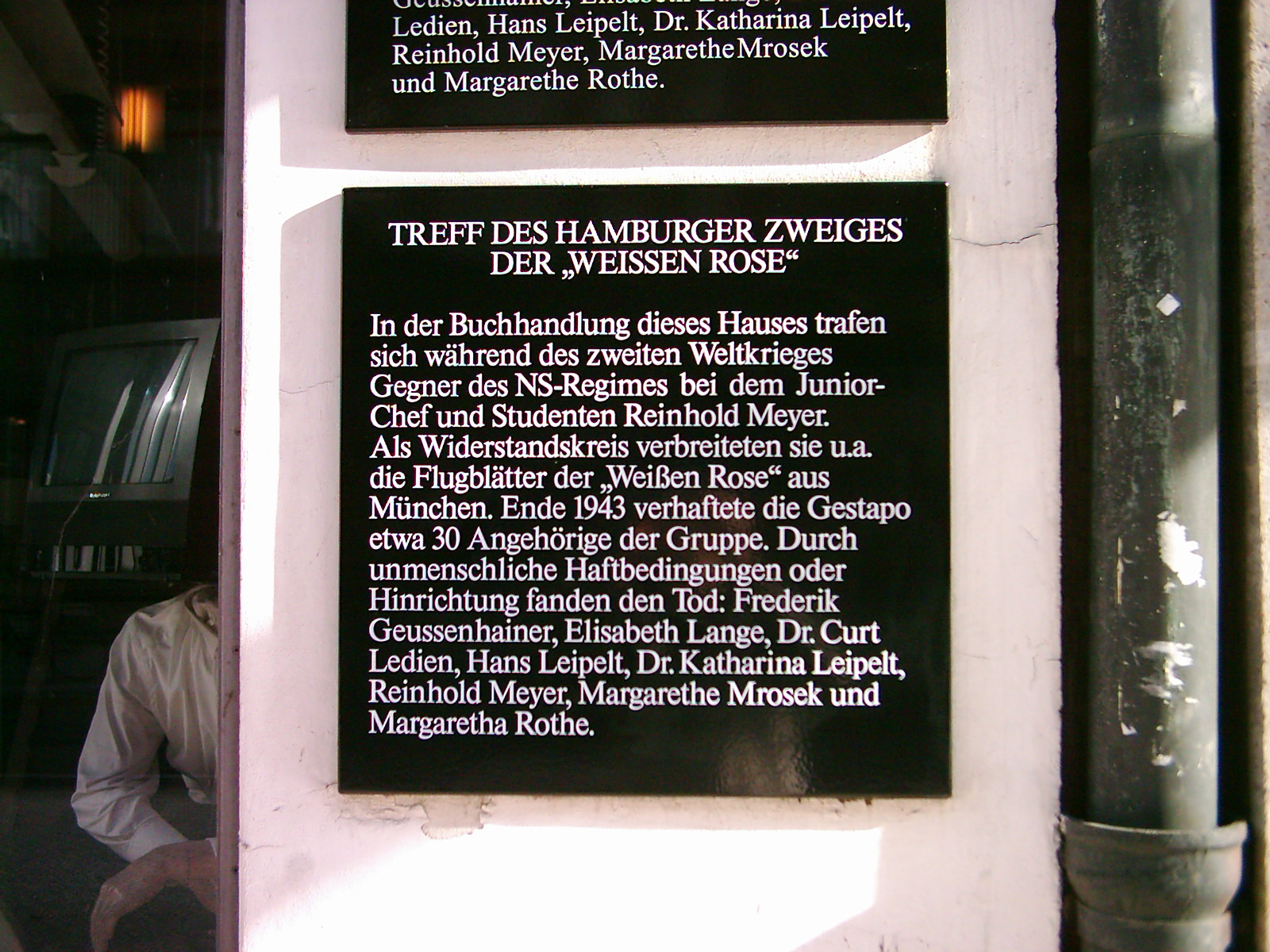 Memorial plaque in german at former bookshop in Hamburg, Germany. During WW II meeting point of members of the antifascist resistance group "White Rose".